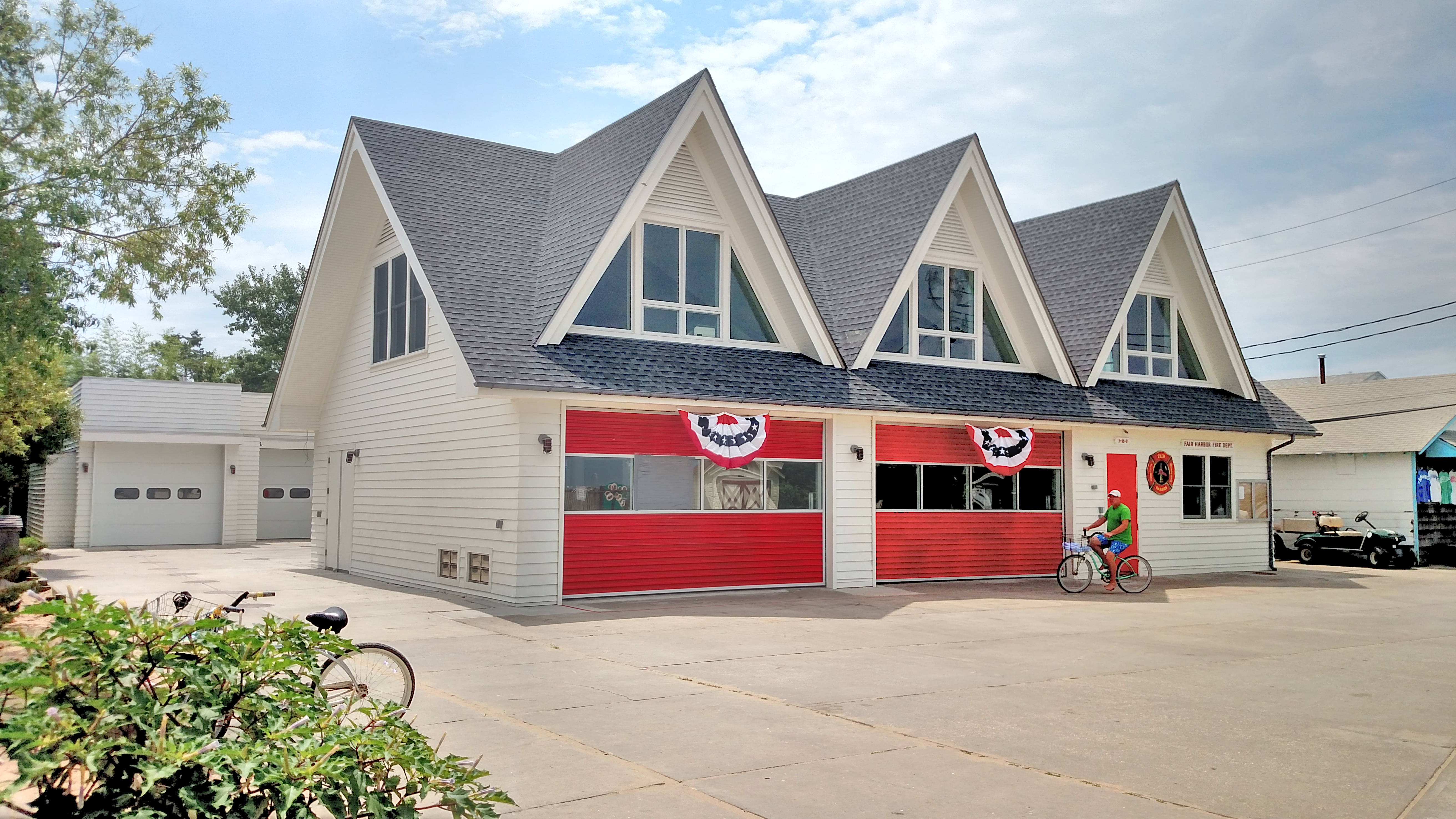 Fair Harbor FD East Side 2